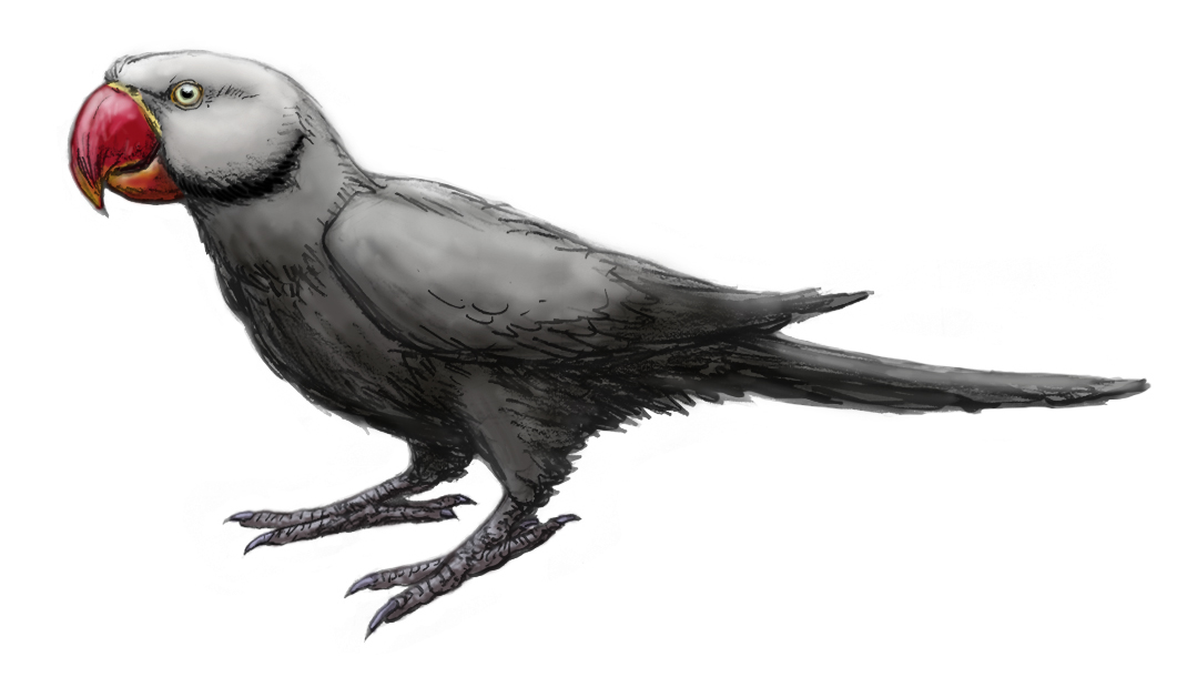 Restoration of the Mascarene grey parakeet Psittacula bensoni, based on contemporary descriptions, subfossils, and the related Alexansdrine parakeet, per J. P. Hume (2007) "Reappraisal of the parrots (Aves: Psittacidae) from the Mascarene Islands, with comments on their ecology, morphology, and affinities".